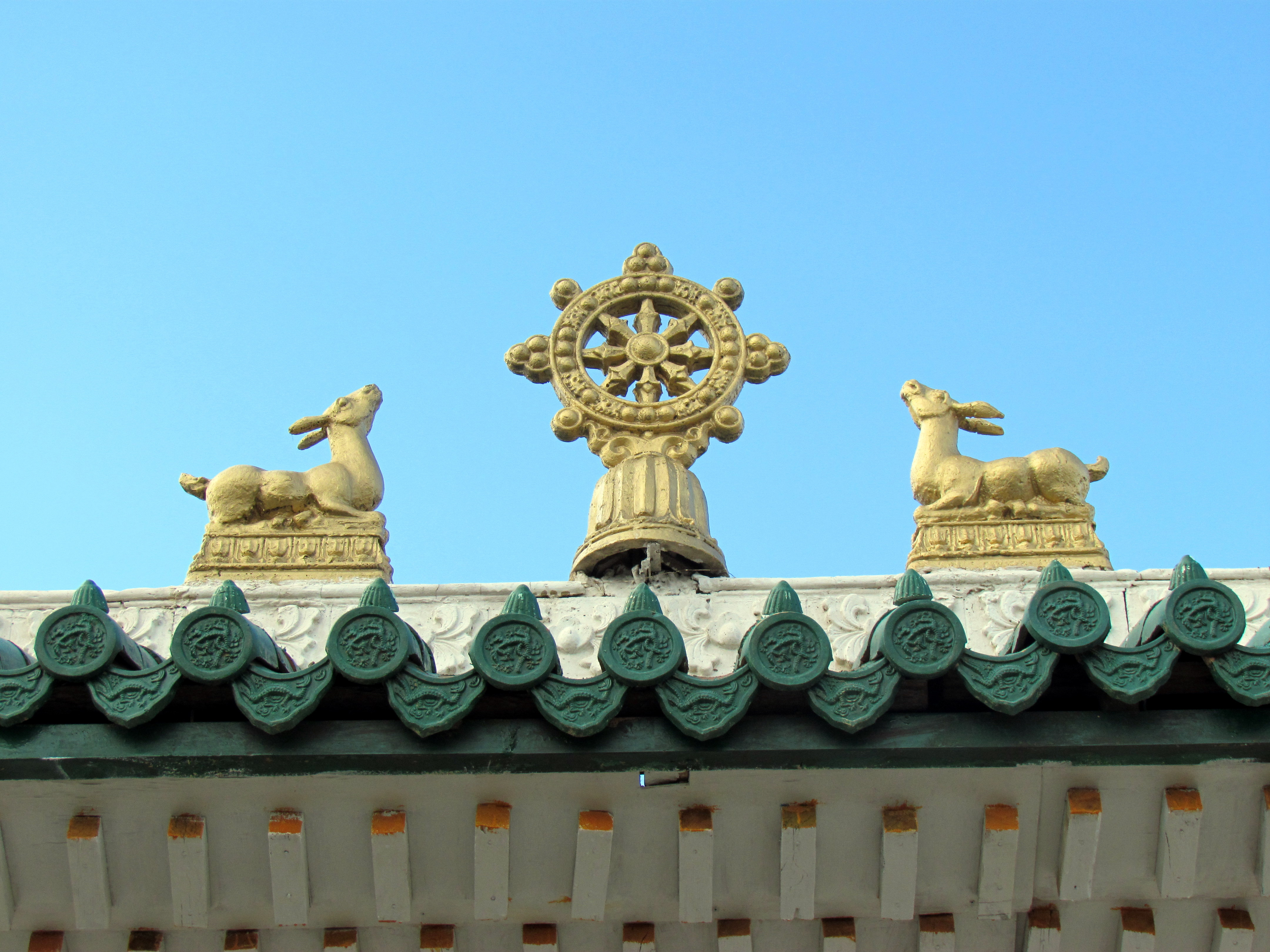 Danzanravjaa Museum of Sainshand, Mongolia